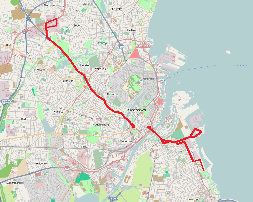 Map of Copenhagen with hurtigbus (fast bus) lines 37, 38 and 42 as of 1956 in red.